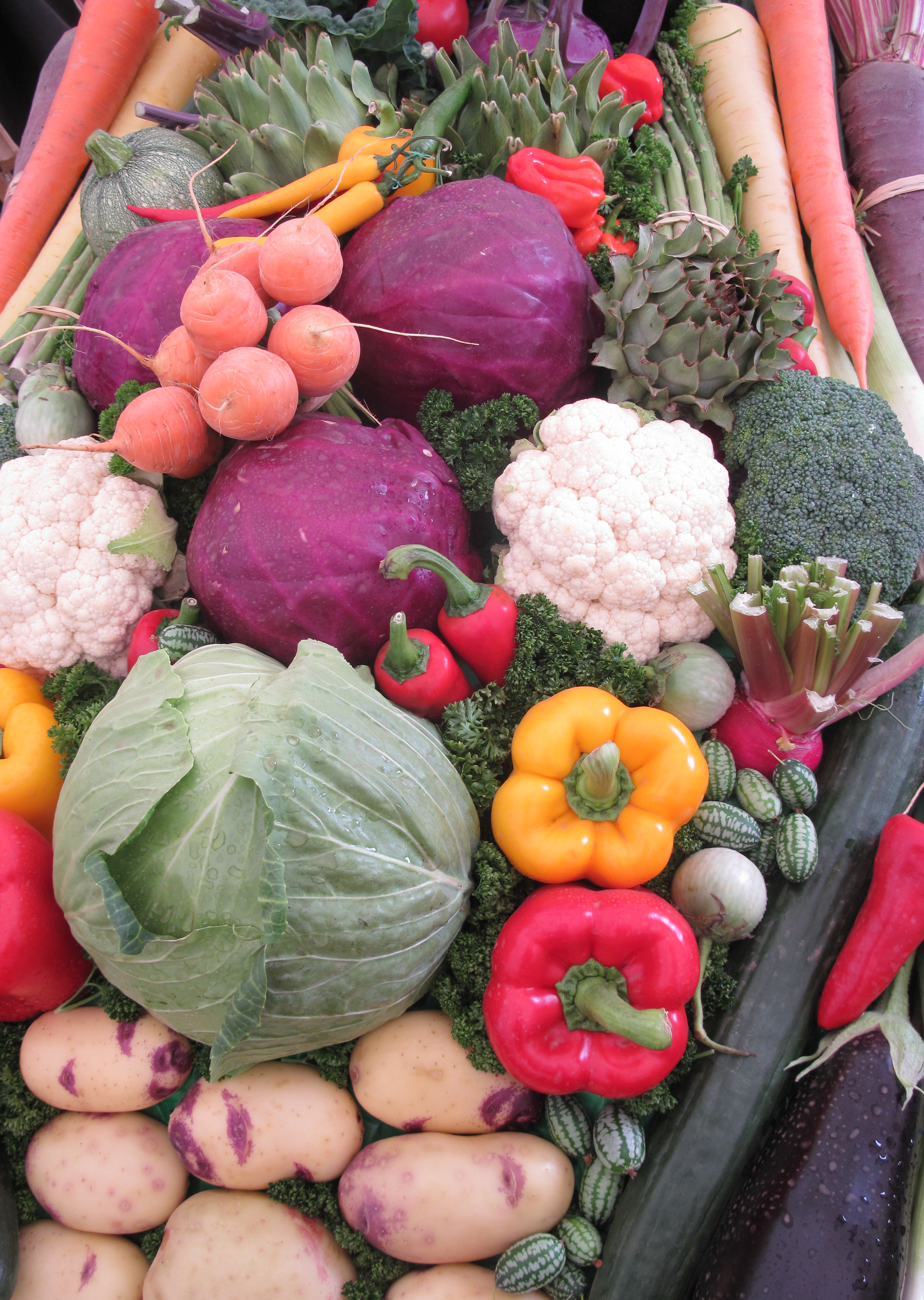 West Show, Jersey, 10-11 July 2010